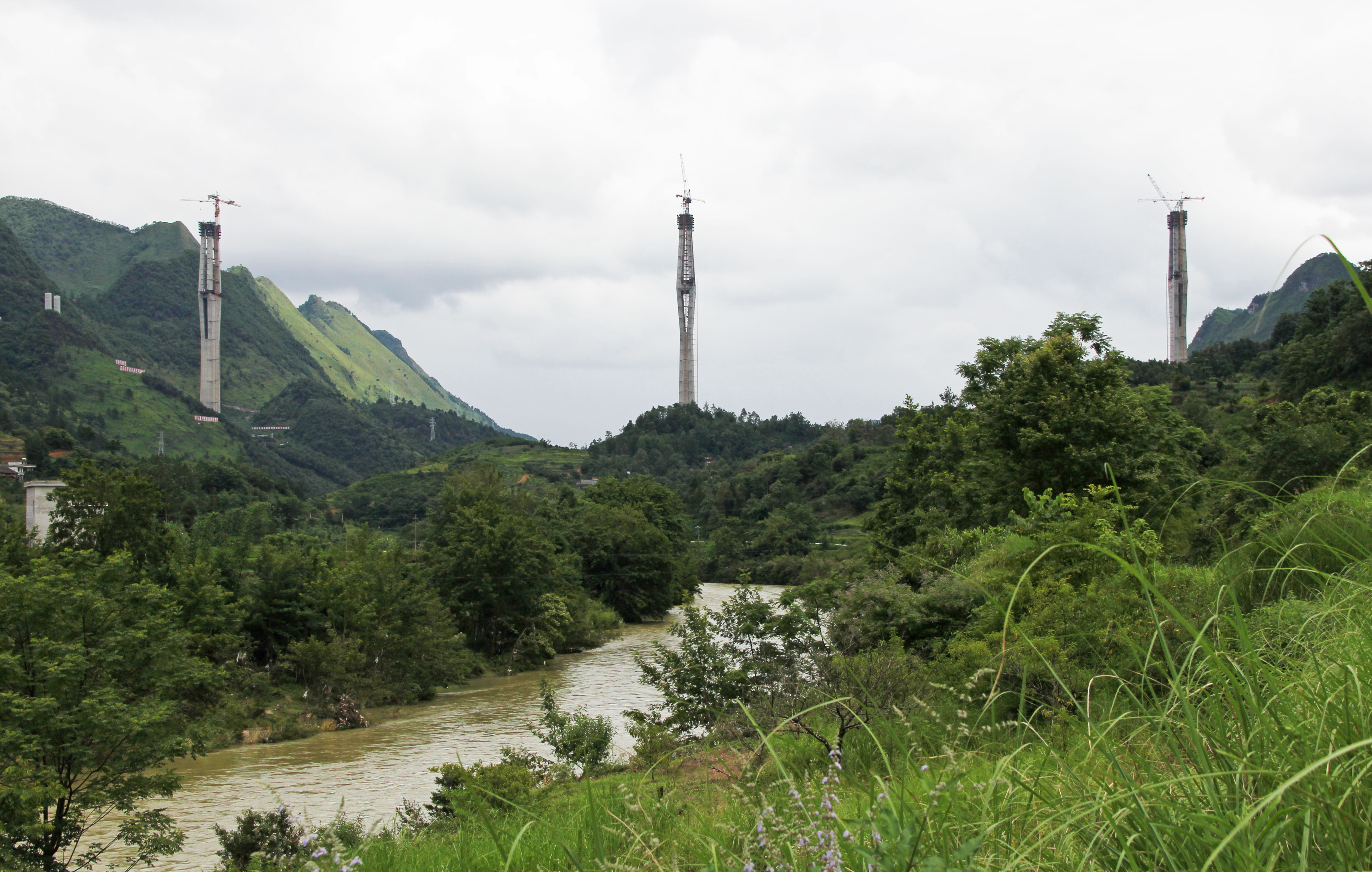 Pingtang Bridge image.